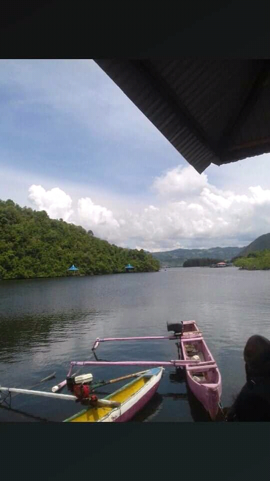 Foto ini saya ambil pada siang hari, tempatnya di Dermaga Pantai Hamadi.